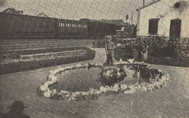 Garden of the Pampilhosa Train Station, during a contest of the better gardens of the train stations in the Beira Alta Railway. This photograph was published on the Gazeta dos Caminhos de Ferro magazine No. 1265, of 1st September 1940, and scanned by the Hemeroteca Municipal de Lisboa.